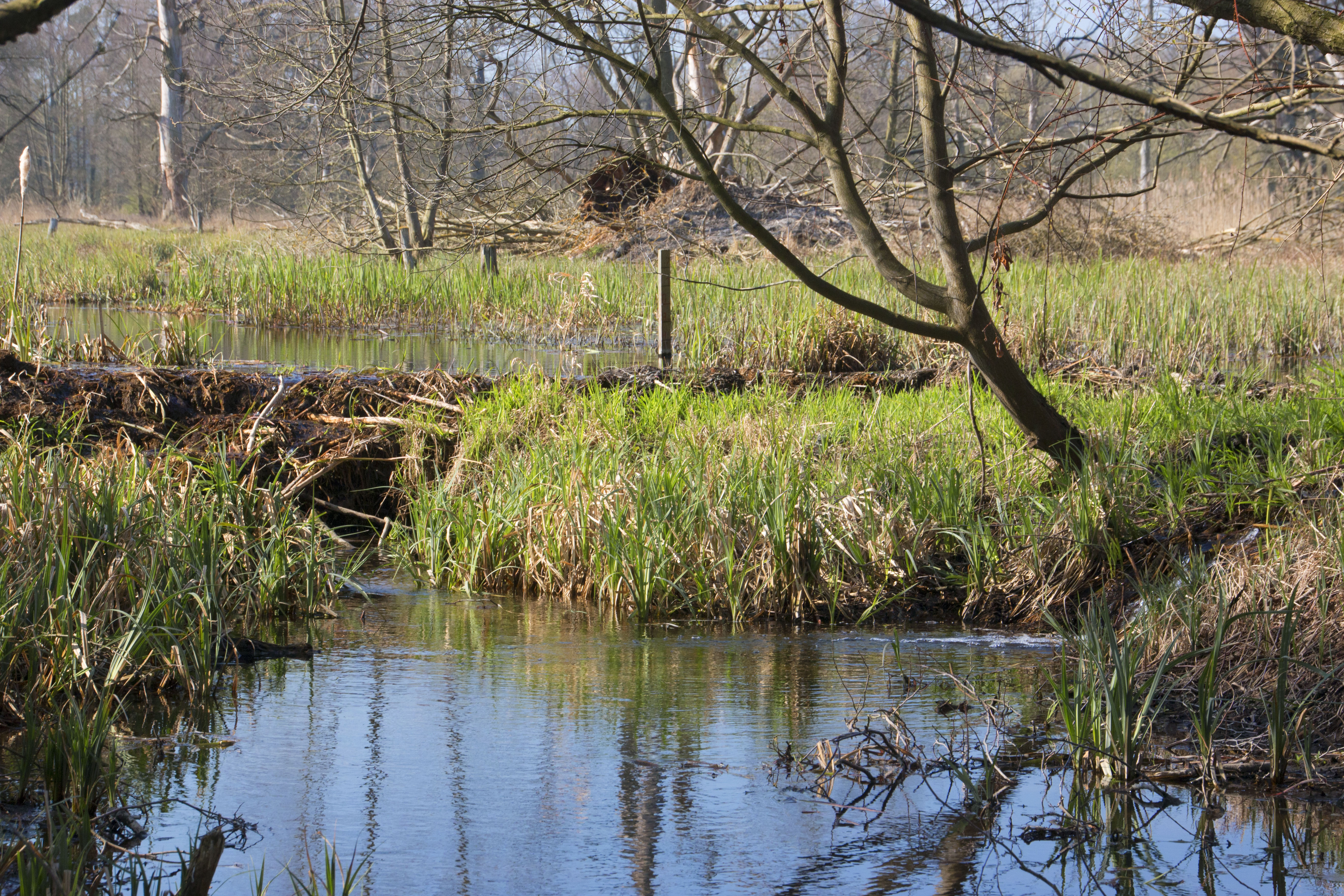 Beaver dam in the nature reserve "Steinhorste"